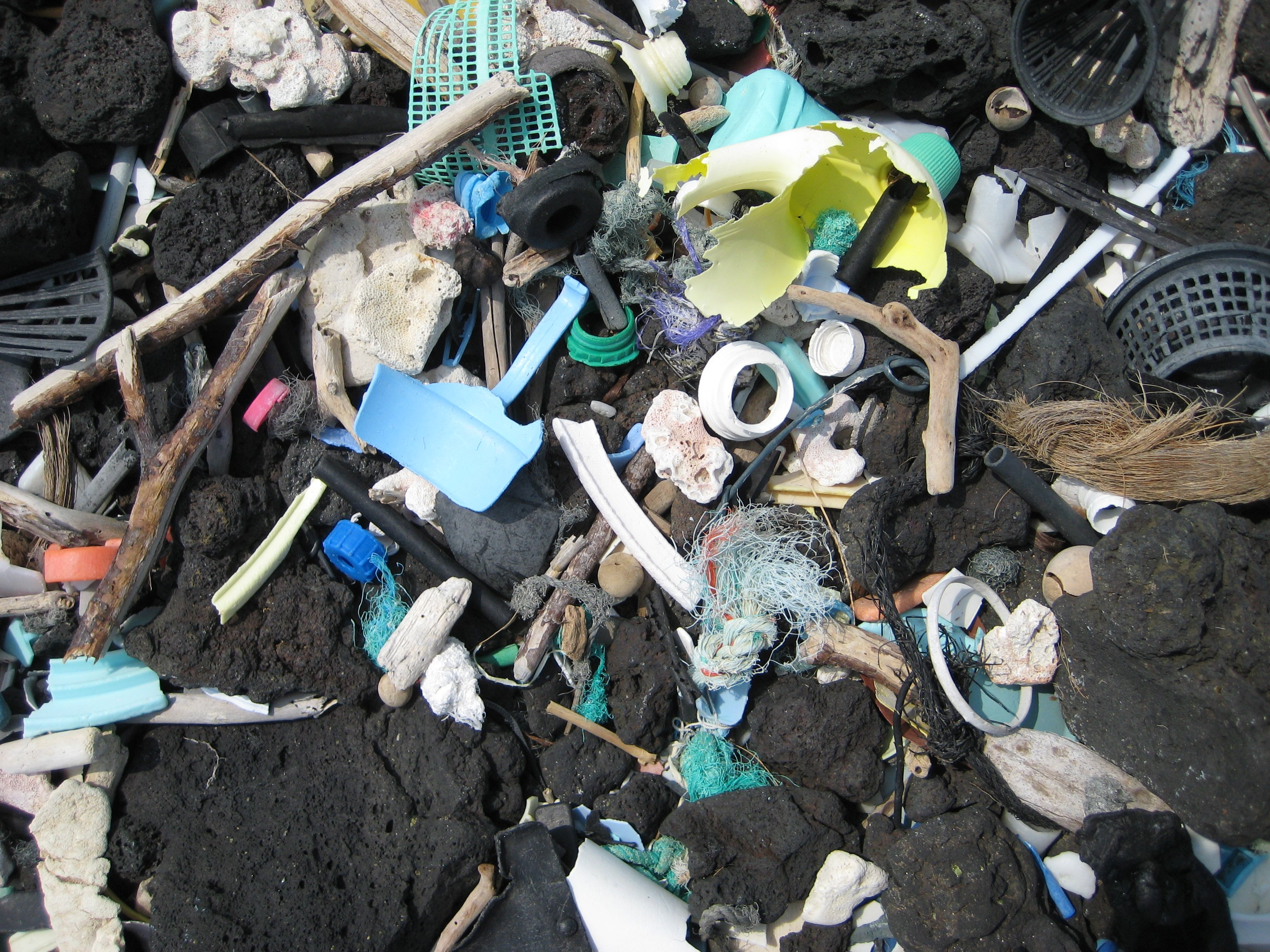 Virtually indestructible pieces of plastic fouling a black rock beach on the island of Hawaii. Smaller pieces of plastic are often mistaken for food and ingested by marine birds, sea turtles, and fish and can kill the unsuspecting animals. Hawaii, Hawaii.